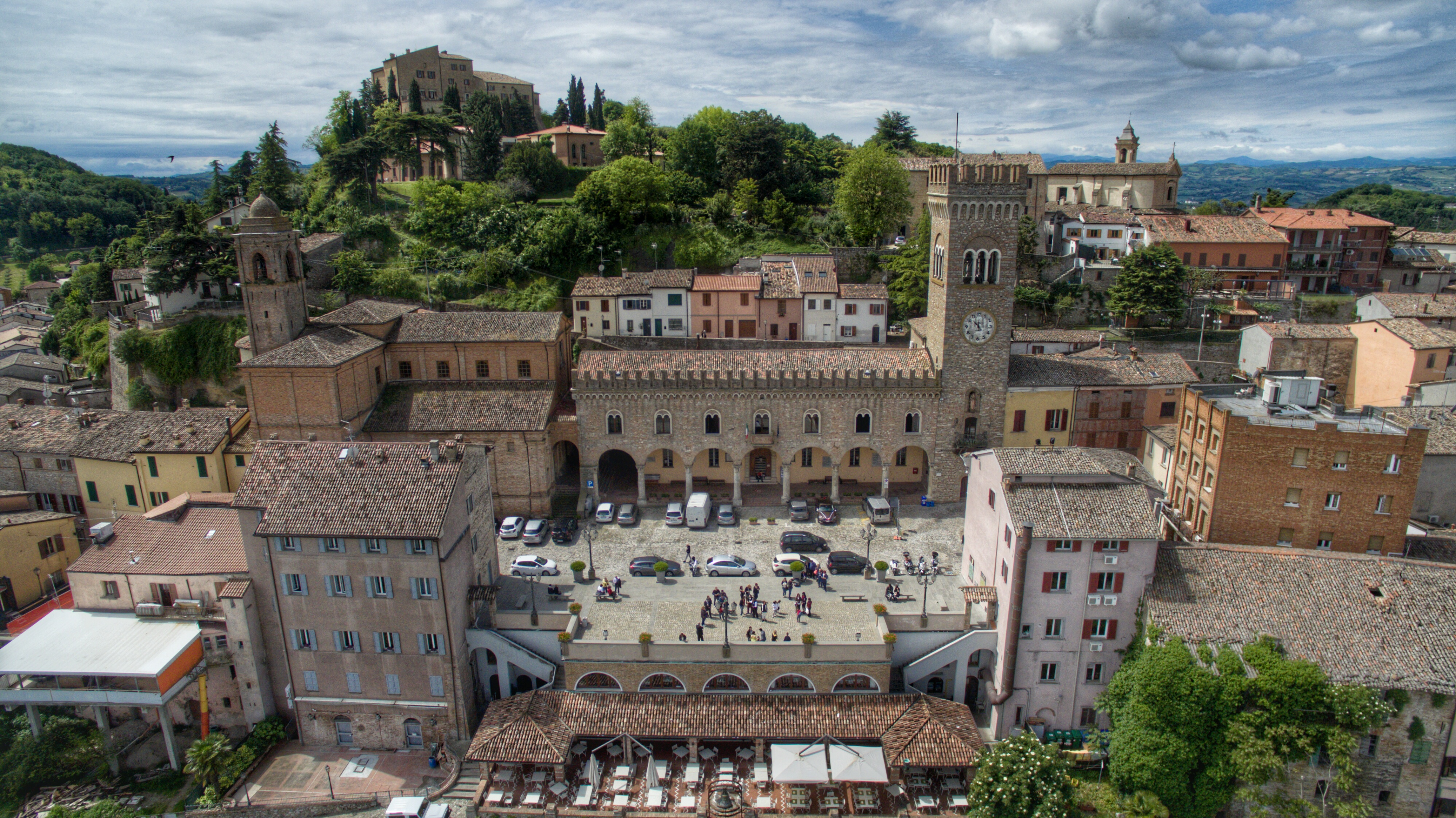 panorama bertinoro drone